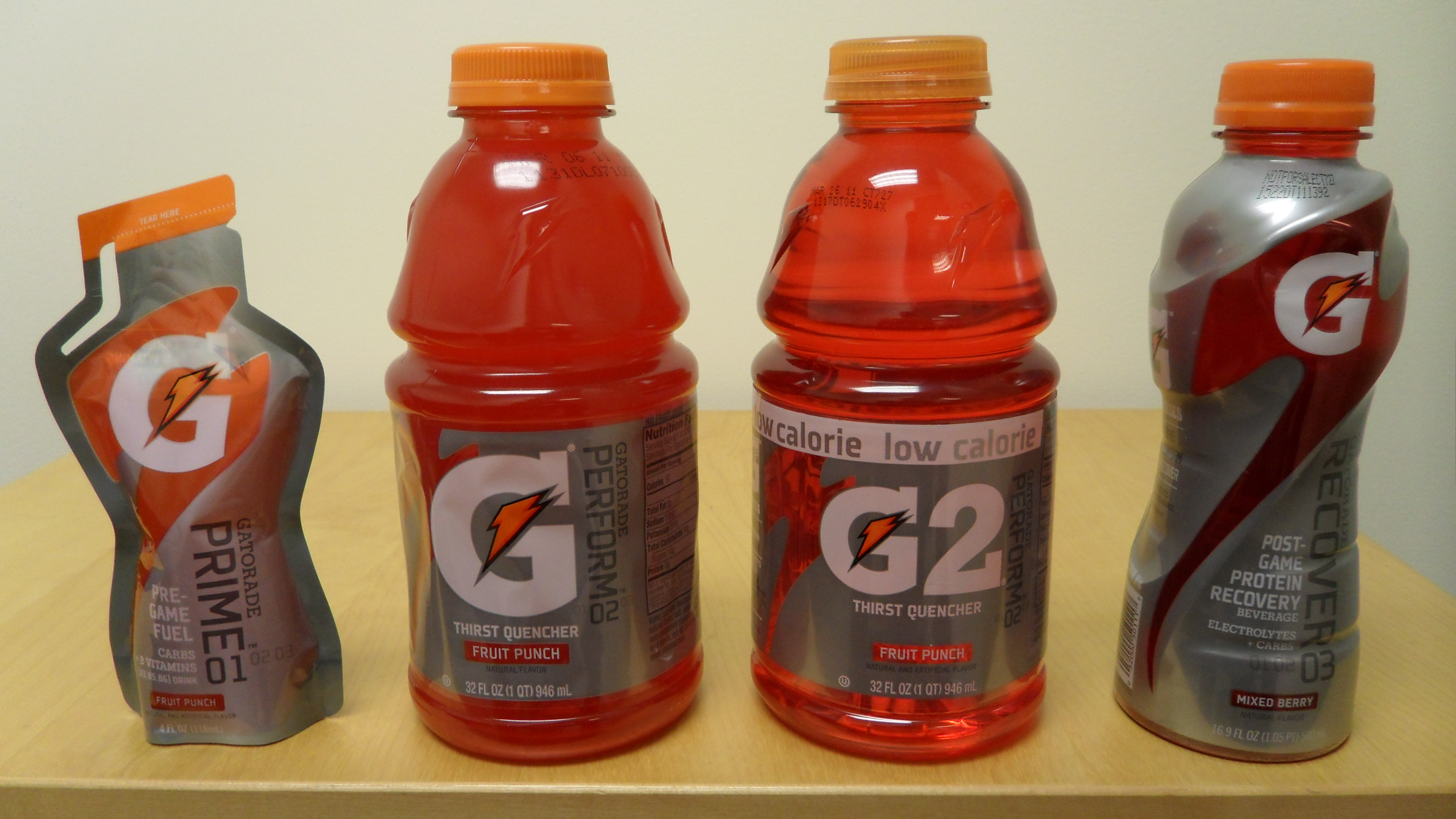 Picture (taken in 2011) of four Gatorade products: Pre-game fuel, Gatorade Thirst Quencher, G2 Low-calorie, and Post-game protein recovery